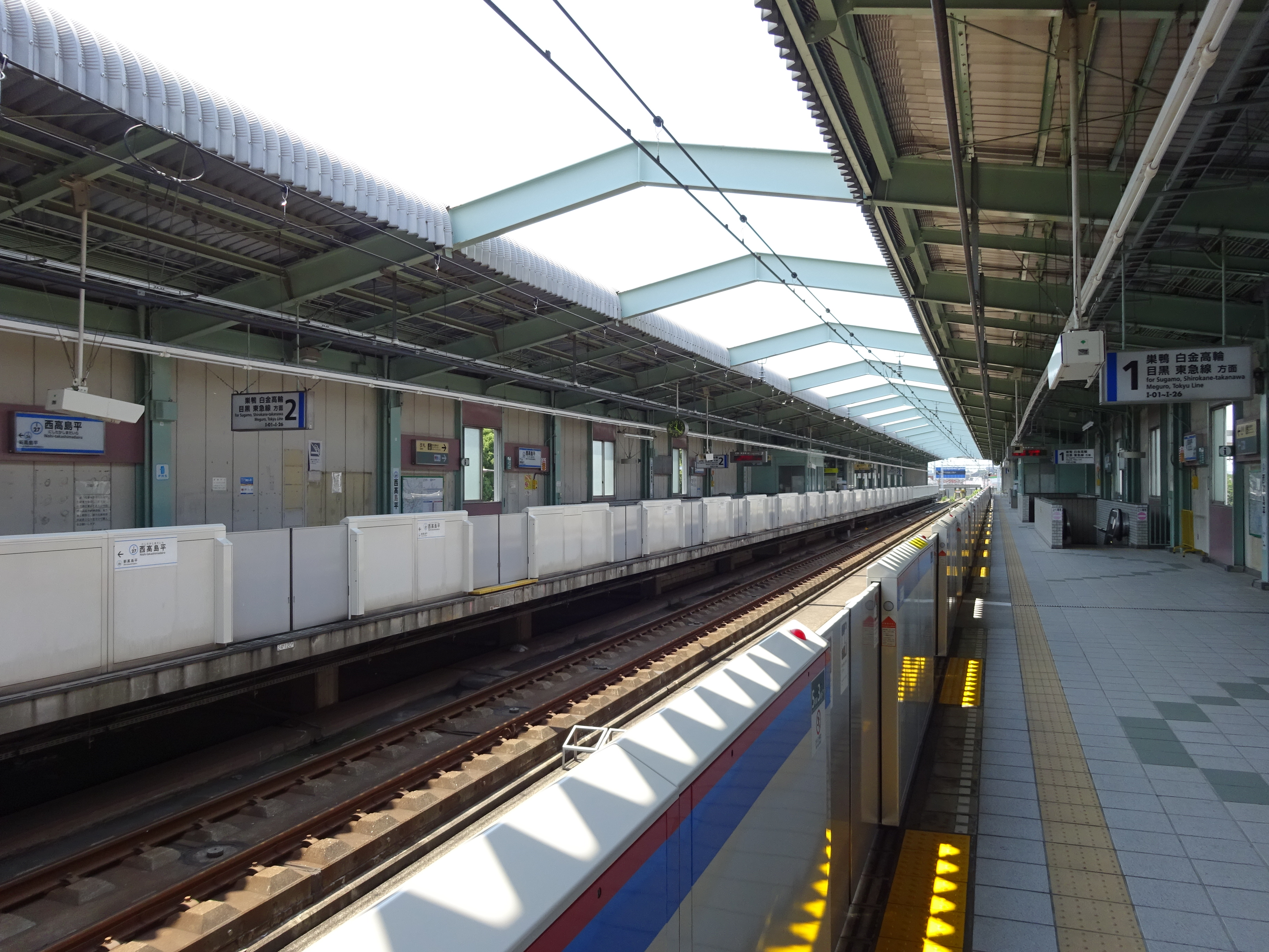 Platforms of Nishi-Takashimadaira Station